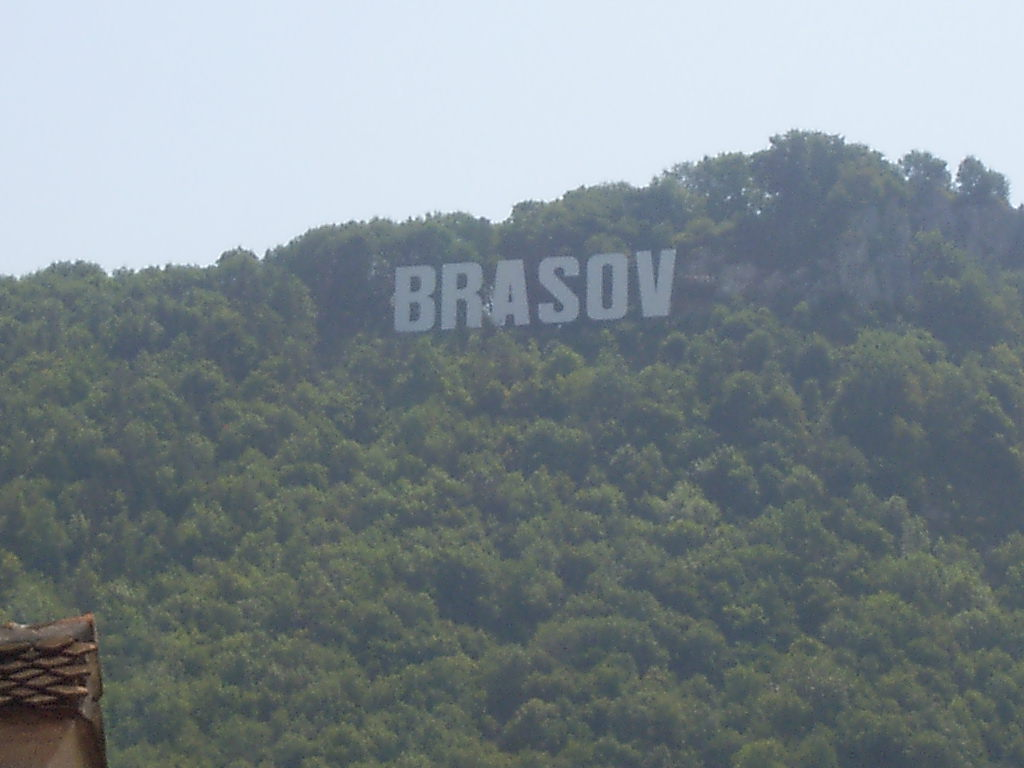 Adam Jackson- Taken on vacation Category:Braşov